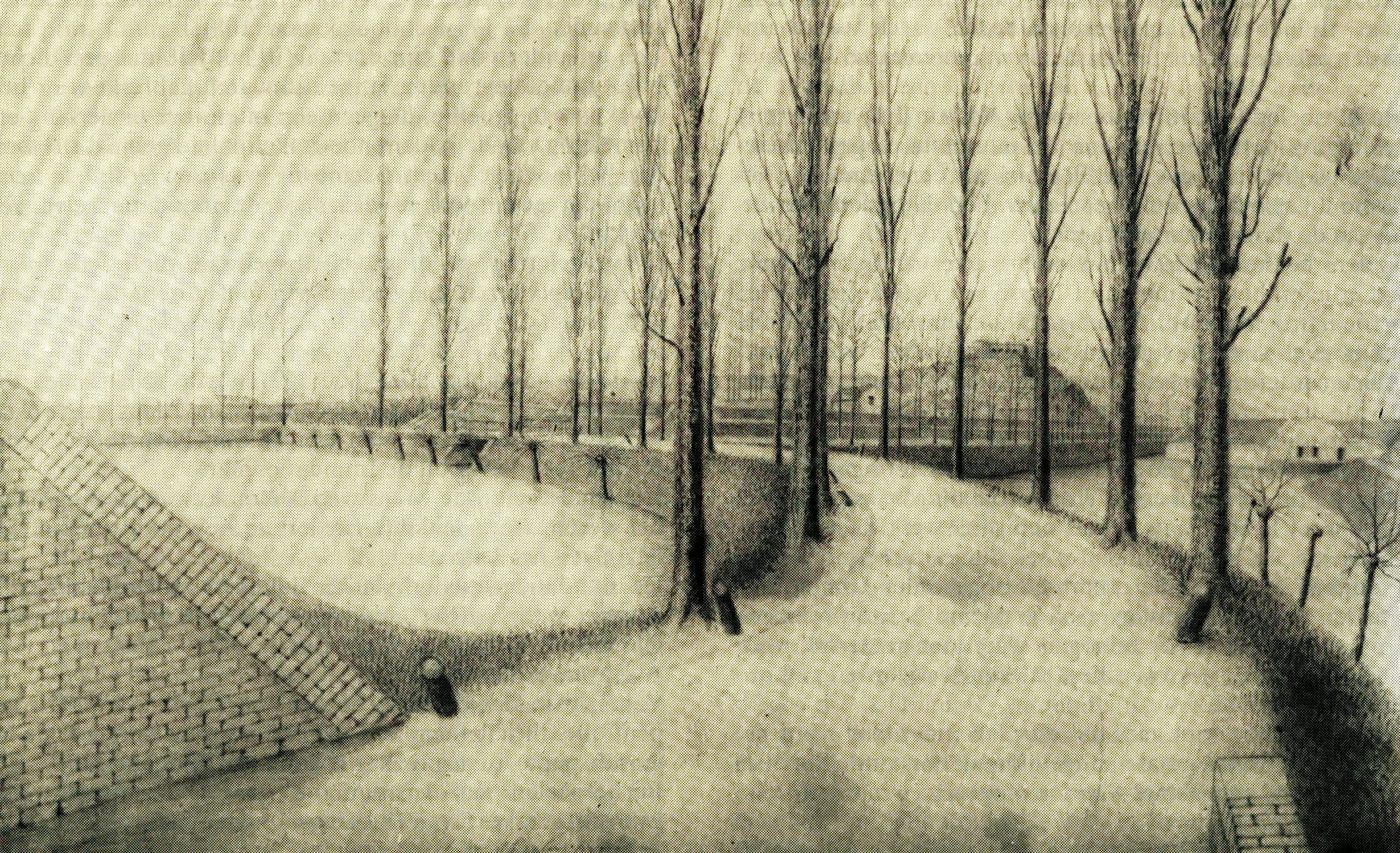 View of the Jeker innundations on the southside of Maastricht. In the background the fortress Sint-Pieter. Drawing by Jan Brabant (1806-1886).